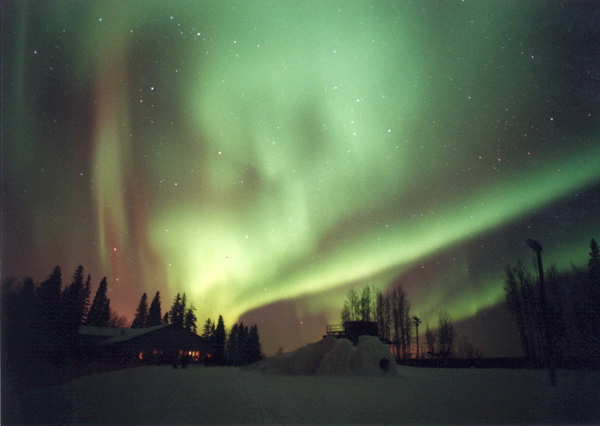 The aurora borealis, or northern lights, decorate the night sky in Fort McMurray, Alberta.